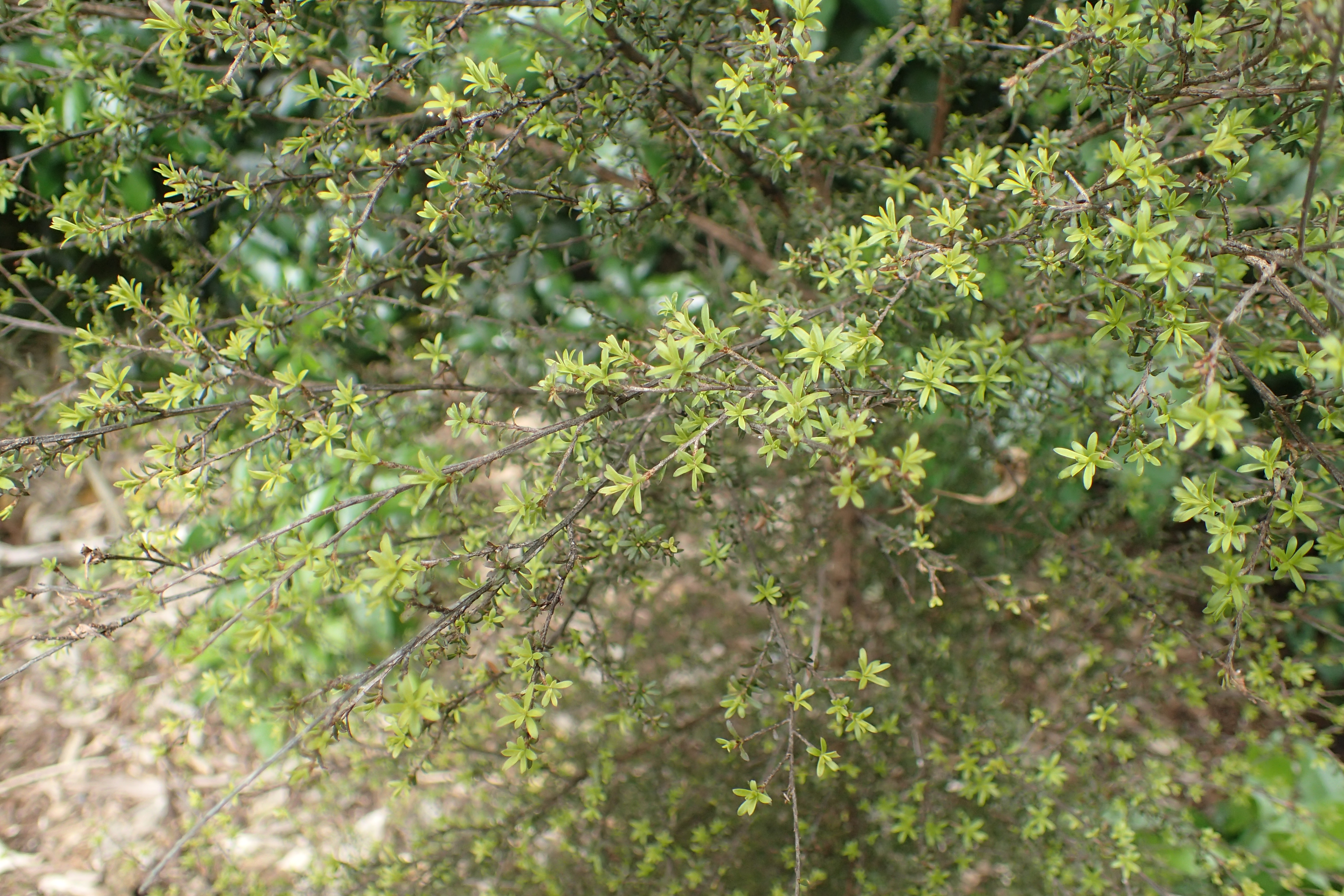 Kunzea serotina in Auckland Botanic Gardens (see: de Lange, P.J. 2014: A revision of the New Zealand Kunzea ericoides (Myrtaceae) complex. PhytoKeys 40: 1–185)